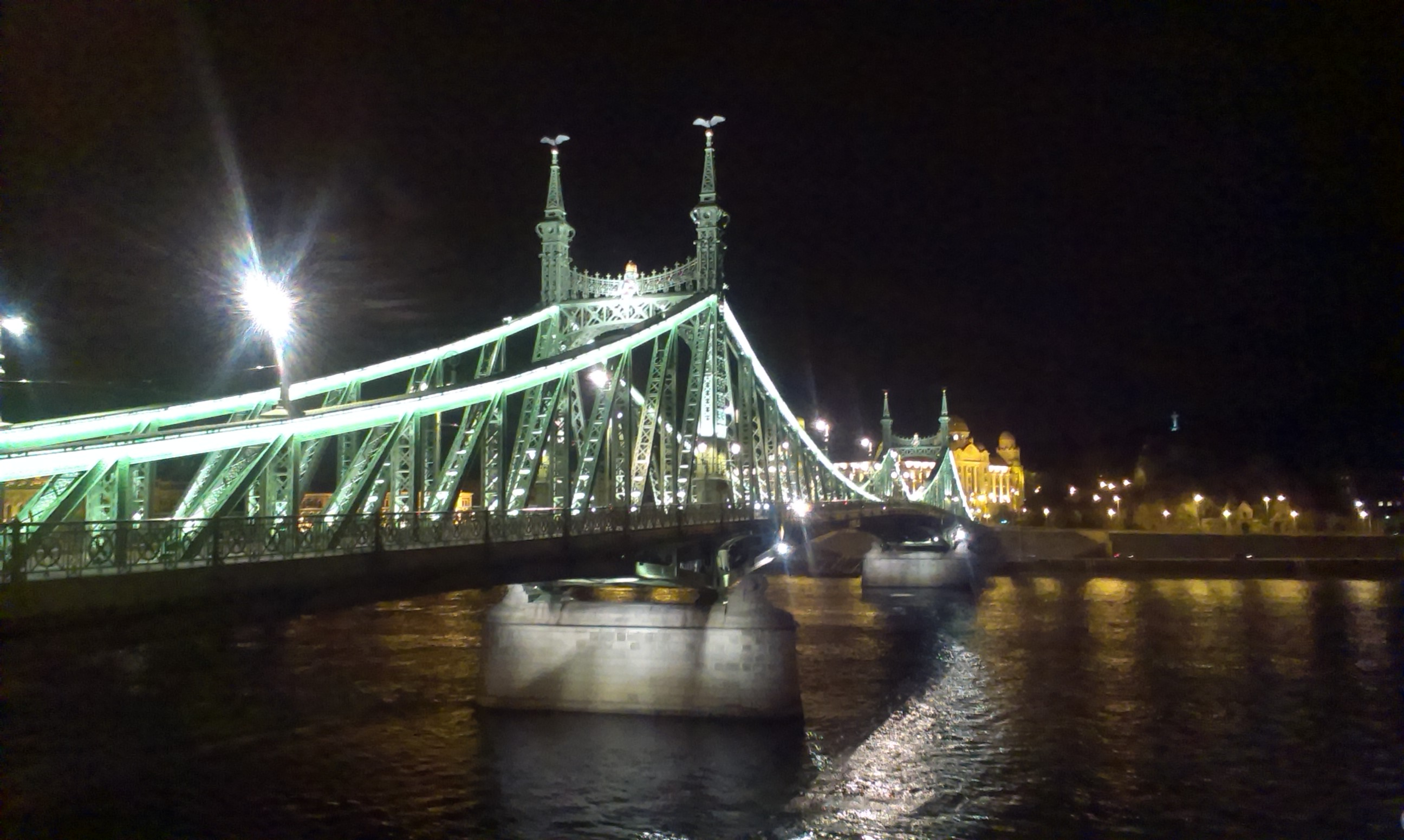 Liberty Bridge of Budapest, illuminated during the night, in April 2016